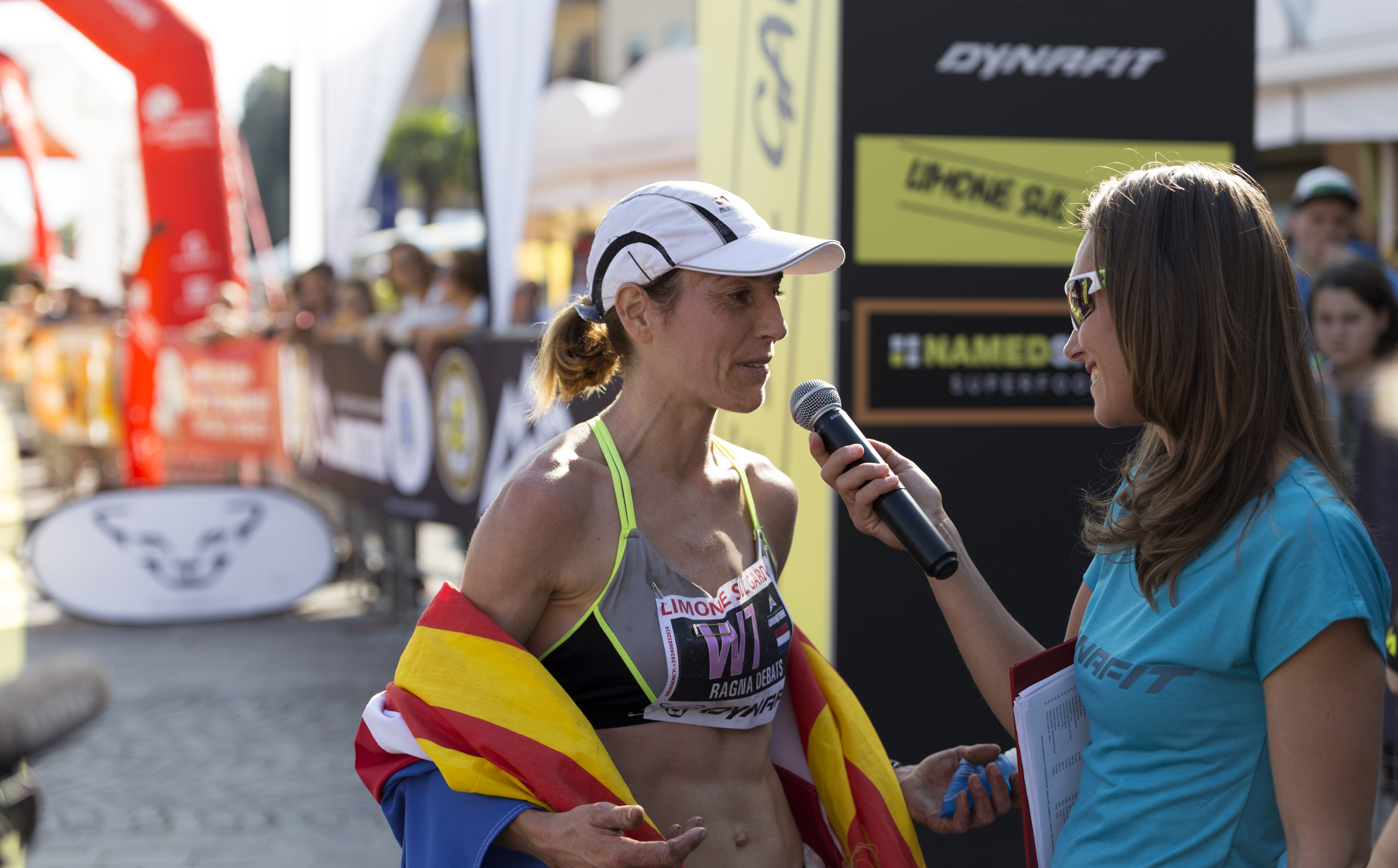 Ragna Debats at the 2017 Limone Extreme SkyRaceNK Skyrunning 2017